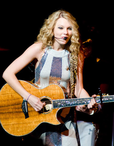 Taylor Swift performs in Joliet, IL, USA in February 2008. Photo by Adam Bielawski